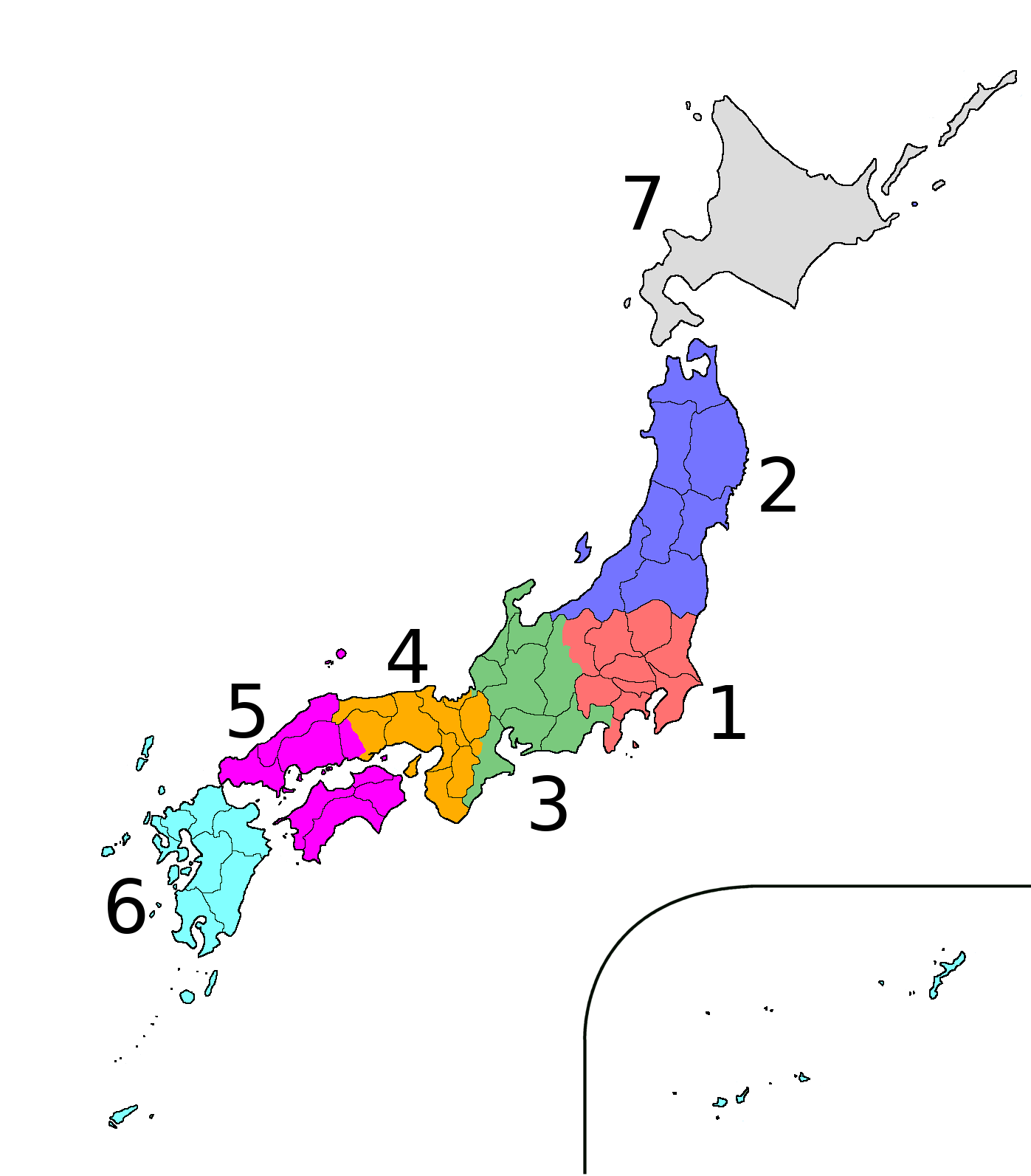 7 Army Region of Japanese Imperial Army. From May 18 of 1885 untill May 13 of 1888.Derived from File:Japan template large.png.